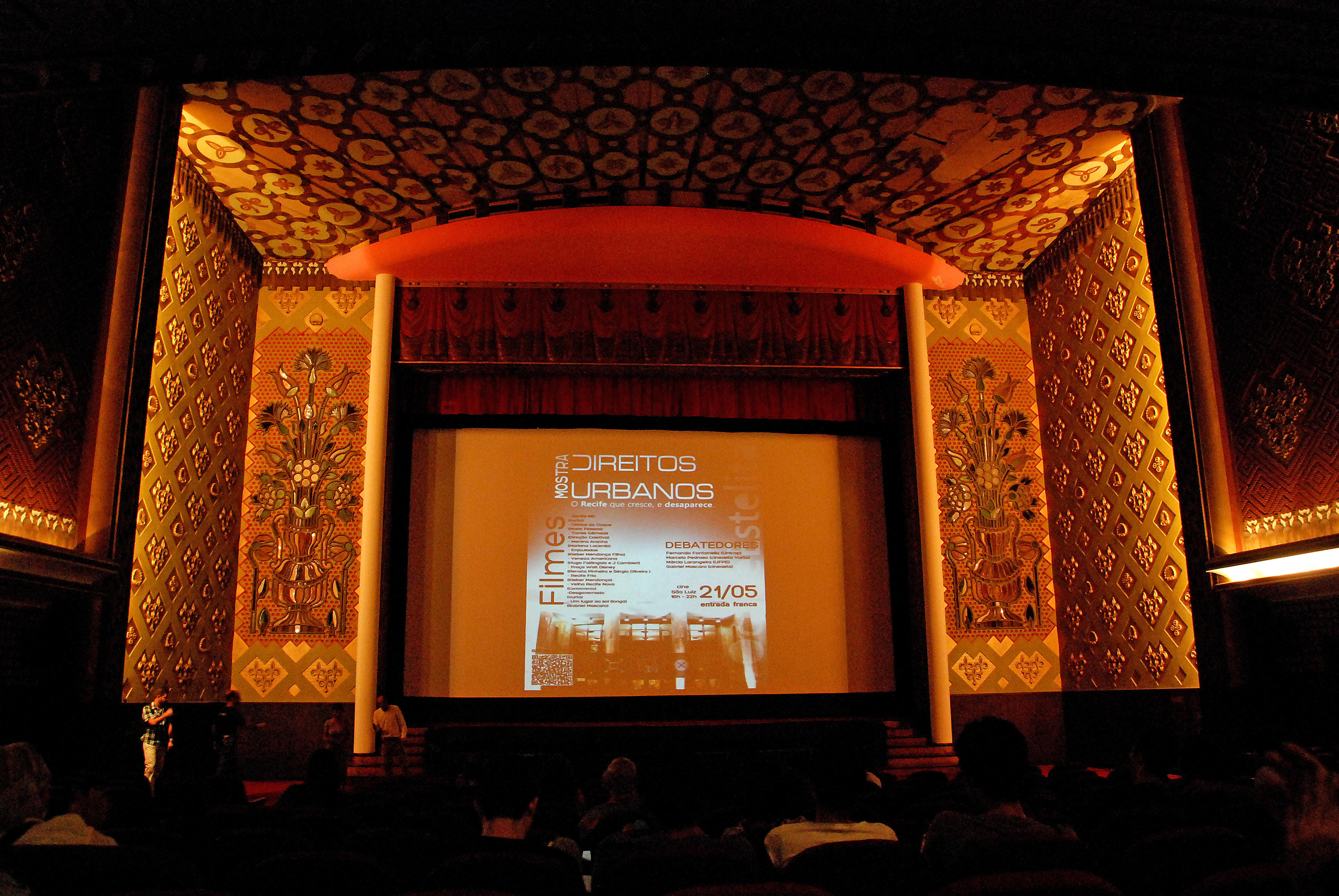 Cinema São Luiz - Recife, Pernambuco, Brasil